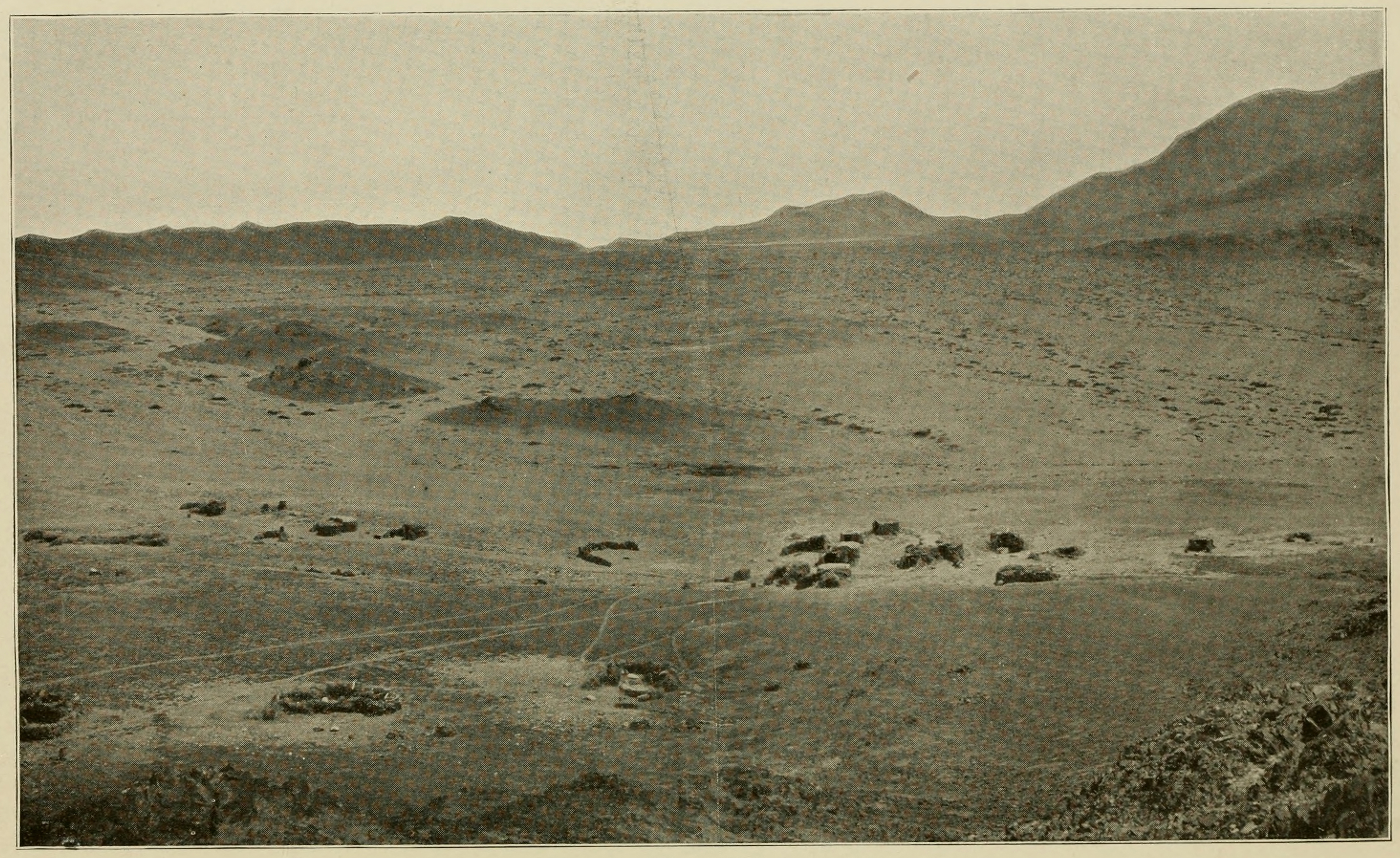 Panorama of Abd al Kuri in 1898, from The Natural History of Sokotra and Abd-el-kuri